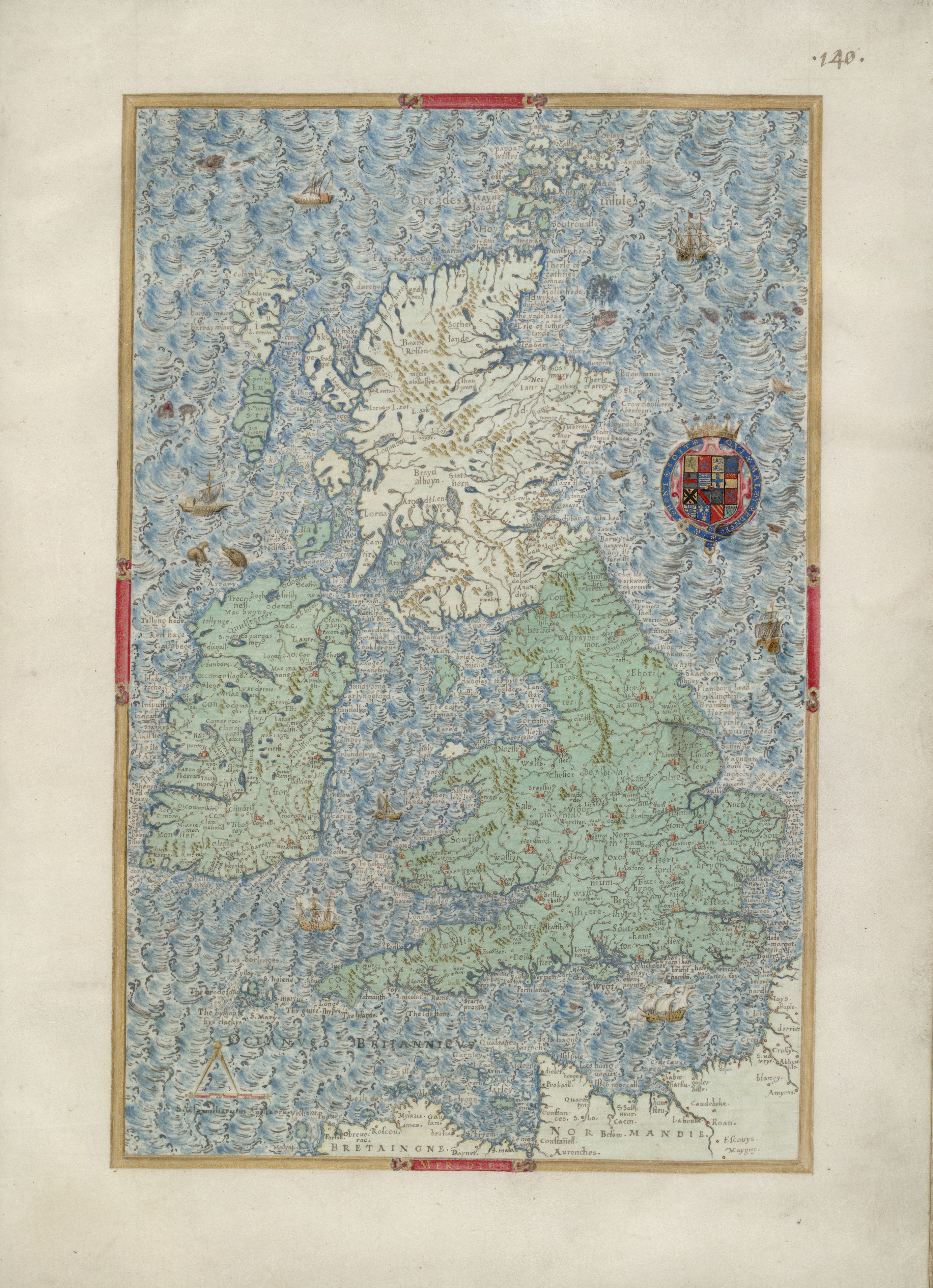 Map of the British Isles. HM 160. William Bowyer. Heroica Eulogia. England, 1567 Call Number: HM 160 Folio: f. 141 Description: Map of the British Isles.